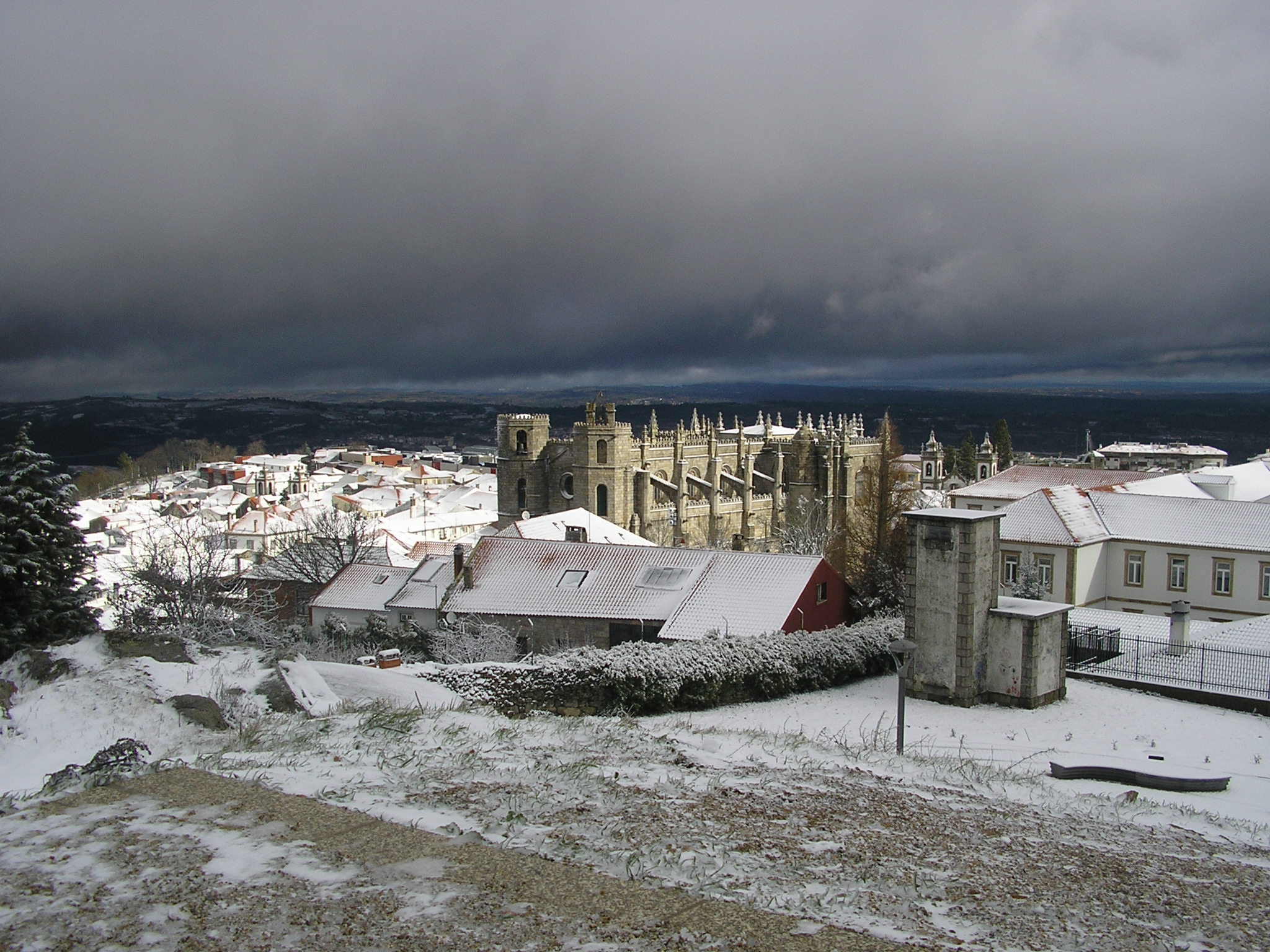 The mediaeval Catedral da Guarda (also known as Sé da Guarda)